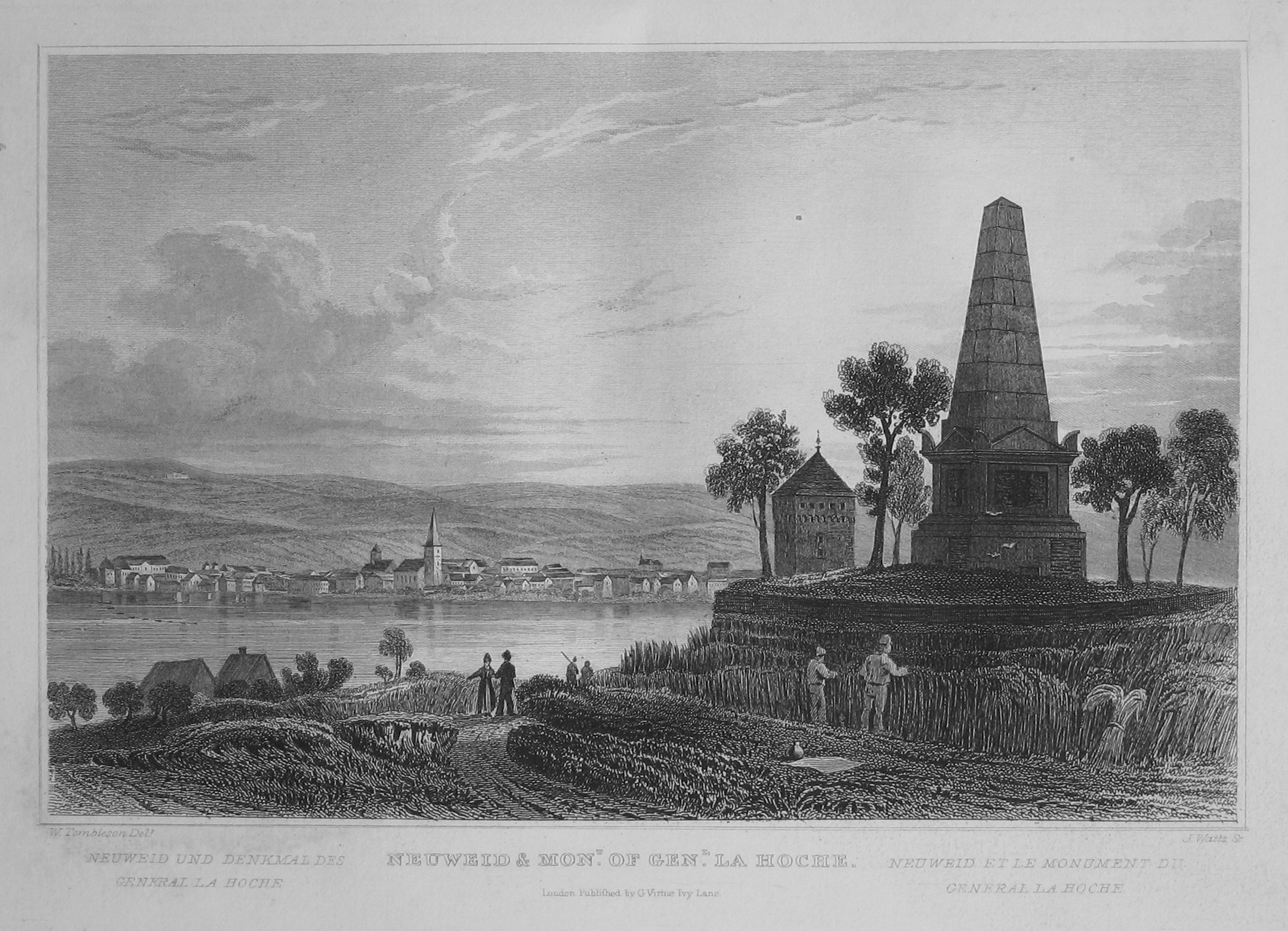 Steel engraving from "Views of the Rhine" by William Tombleson (around 1840): Neuweid & Mon. of Genn. La Hoche